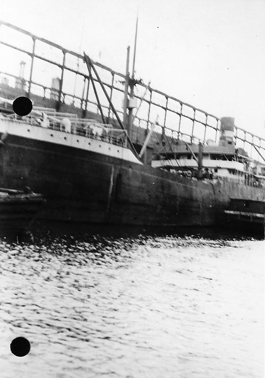 Cargo ship SS Zuiderdijk in port, prior to her 1918-1919 U.S. Navy service as USS Zuiderdijk.